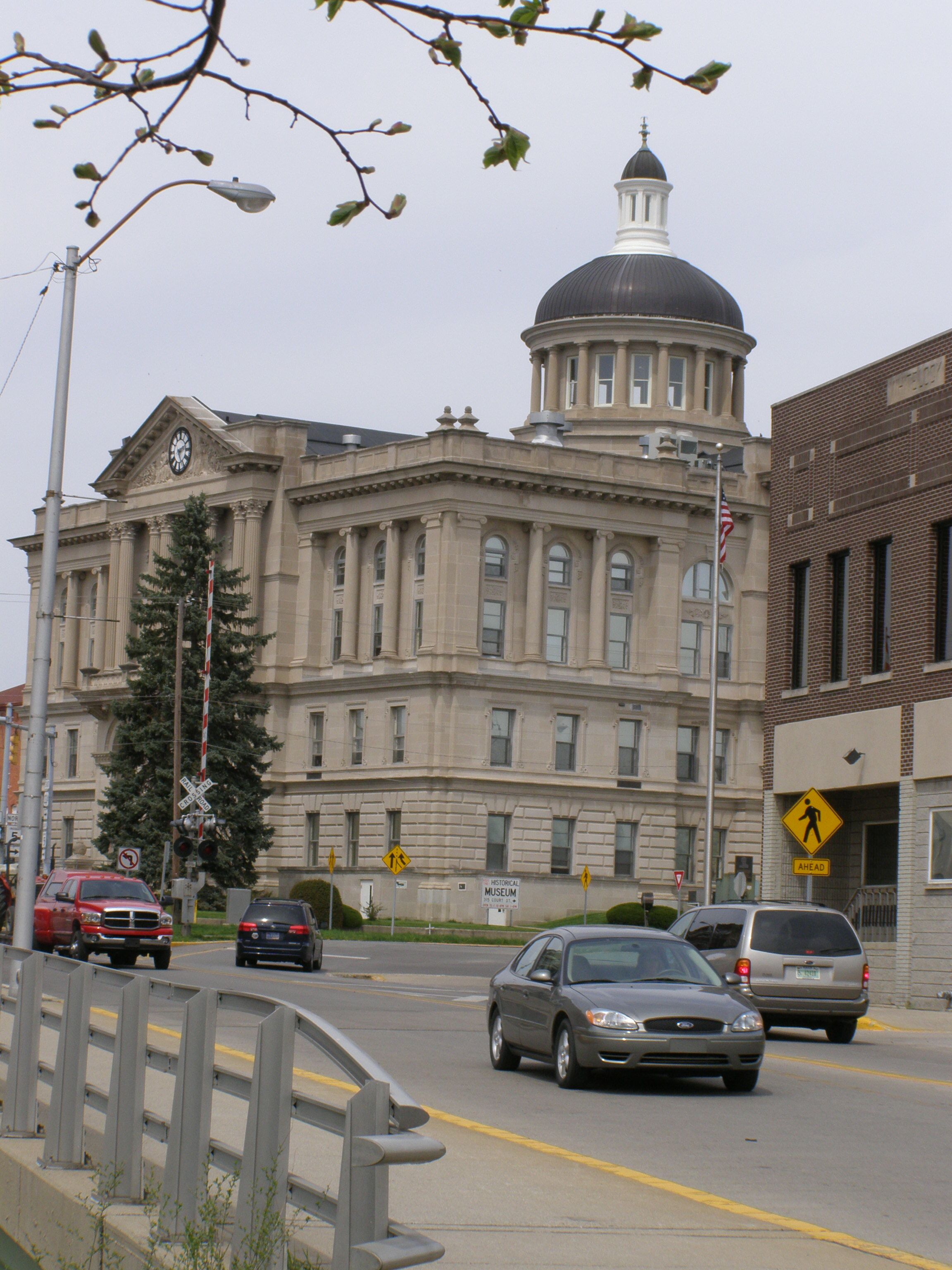 Huntington County Courthouse, Huntington, Indiana